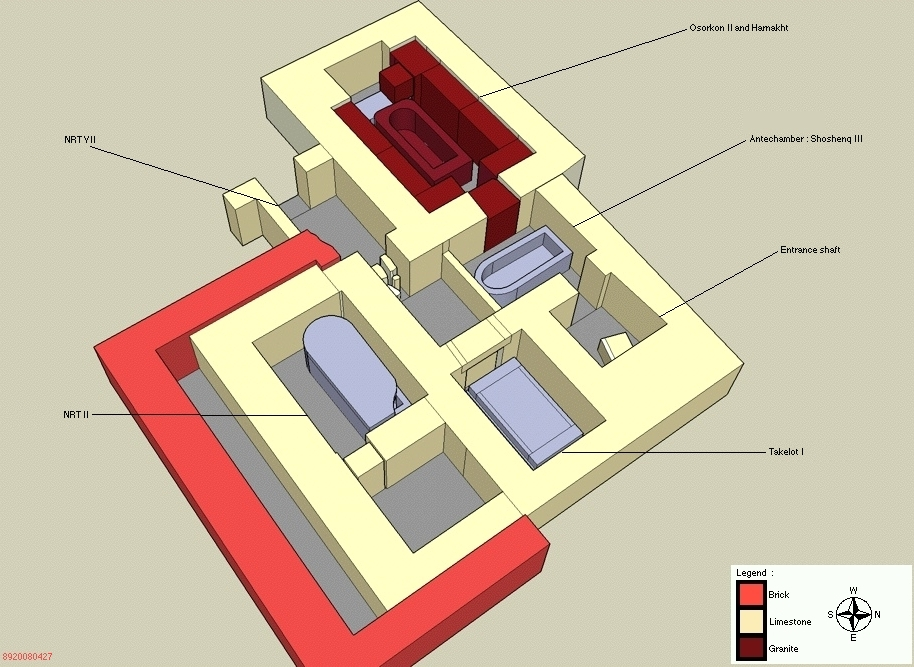 Restored view of tombs NRT I, NRT II and NRT VII - Royal necropolis of Tanis - 22nd dynasty of Egypt